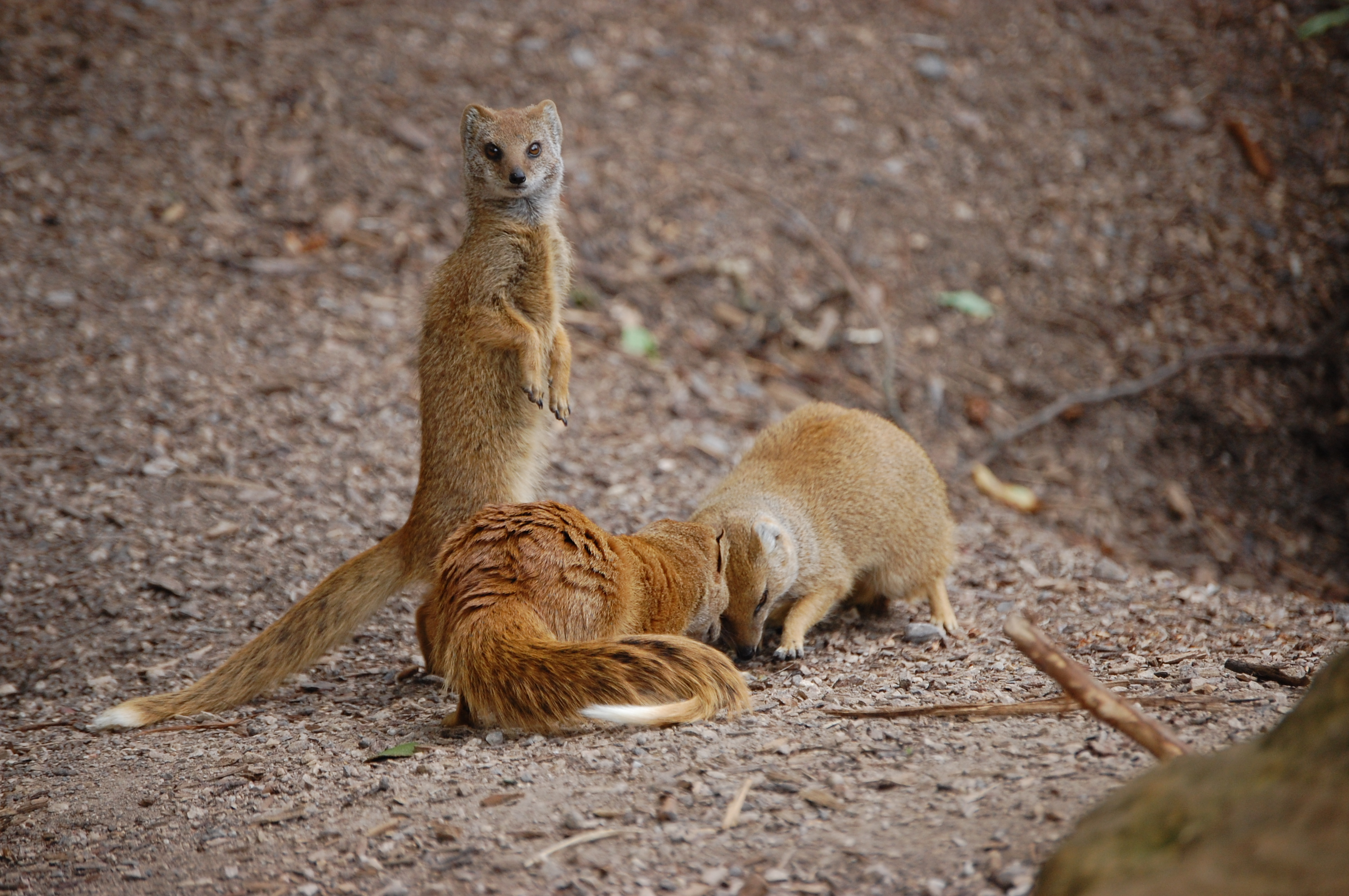 Yellow Mongoose (Cynictis penicillata) at the London Zoo.